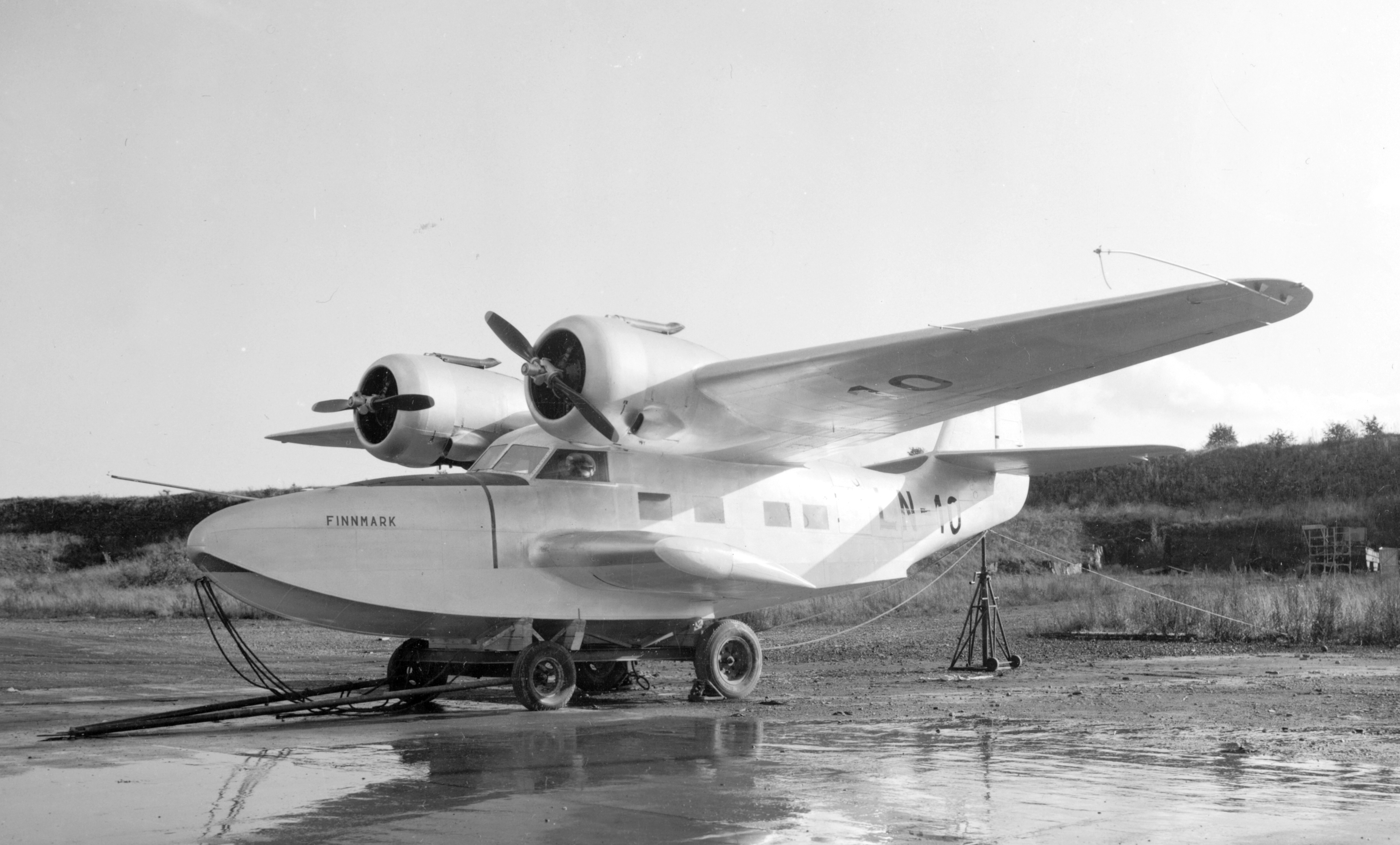 Amphibious aircraft Norsk Flyindustri Finnmark 5-A on a trolley.